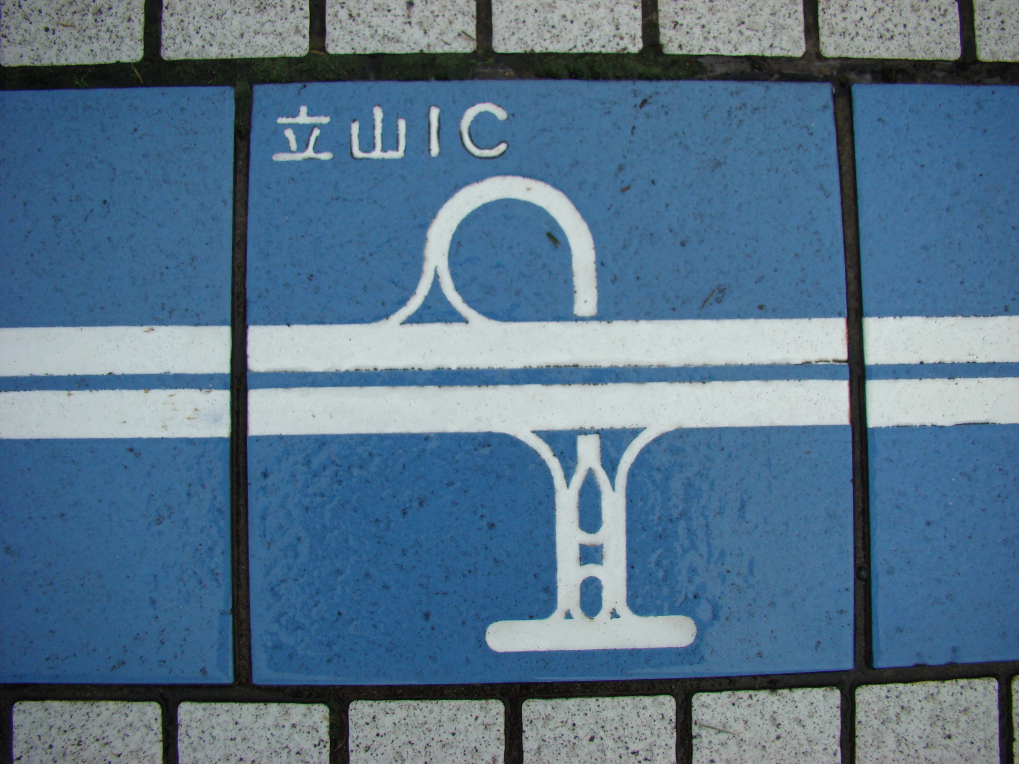 The tile which designed a shape of the Tateyama Interchange（Hokuriku Expressway）（There is this tile in Hokuriku Expressway Nadachi-Tanihama Service Area.）. Place - Chayagahara,Joetsu City,Niigata Prefecture,Japan Date - August 9, 2009 Format - JPEG, 3264x2448pixel, 24bit colors. Photographer - NALA Wiki (talk)